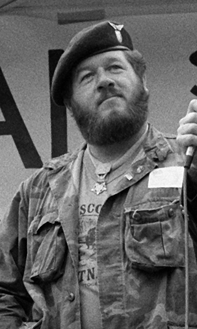 United States Army soldier and Vietnam War Medal of Honor recipient Gary George Wetzel